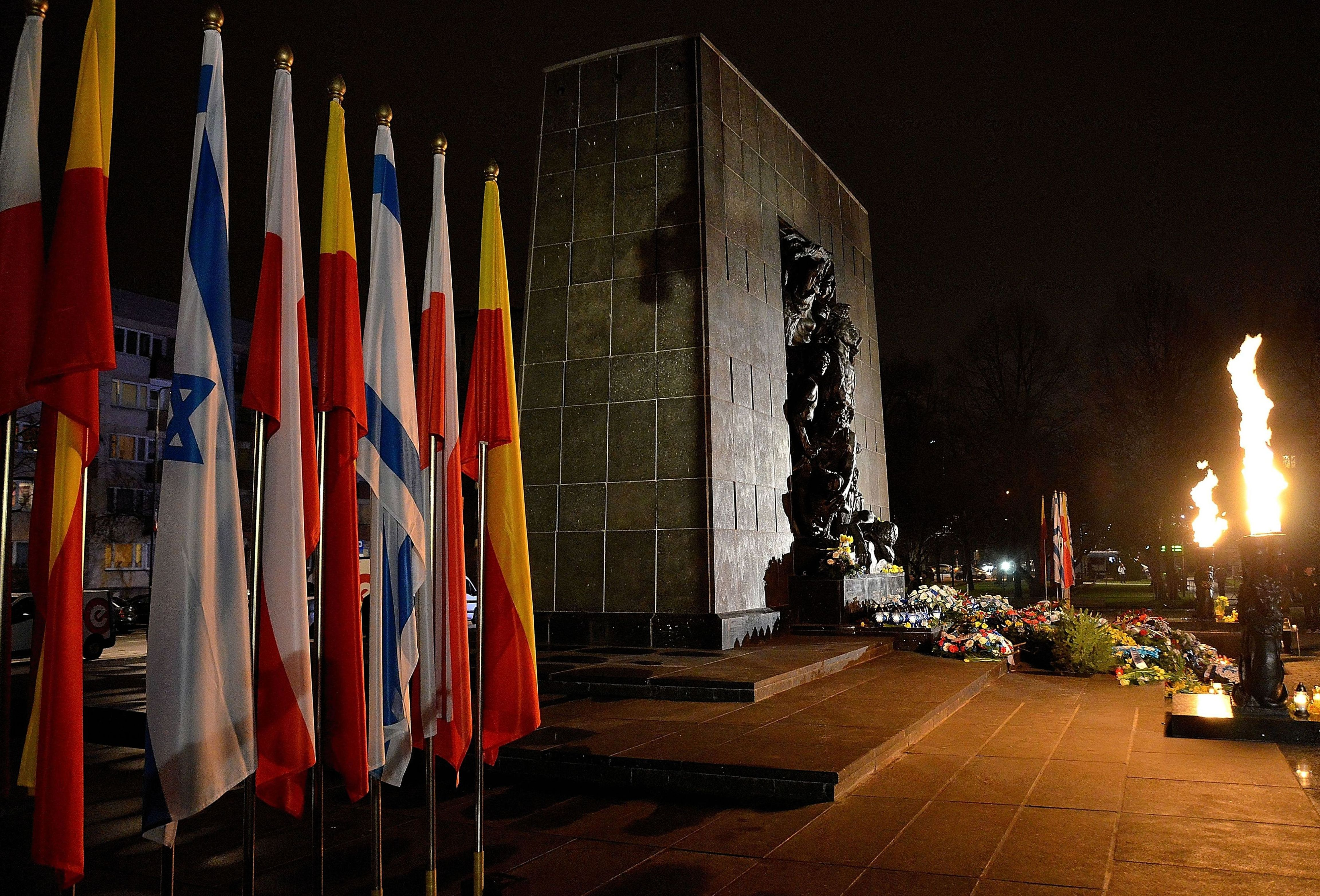 70th anniversary of the Warsaw Ghetto Uprising. Monument to the the Warsaw Ghetto Heroes in Warsaw